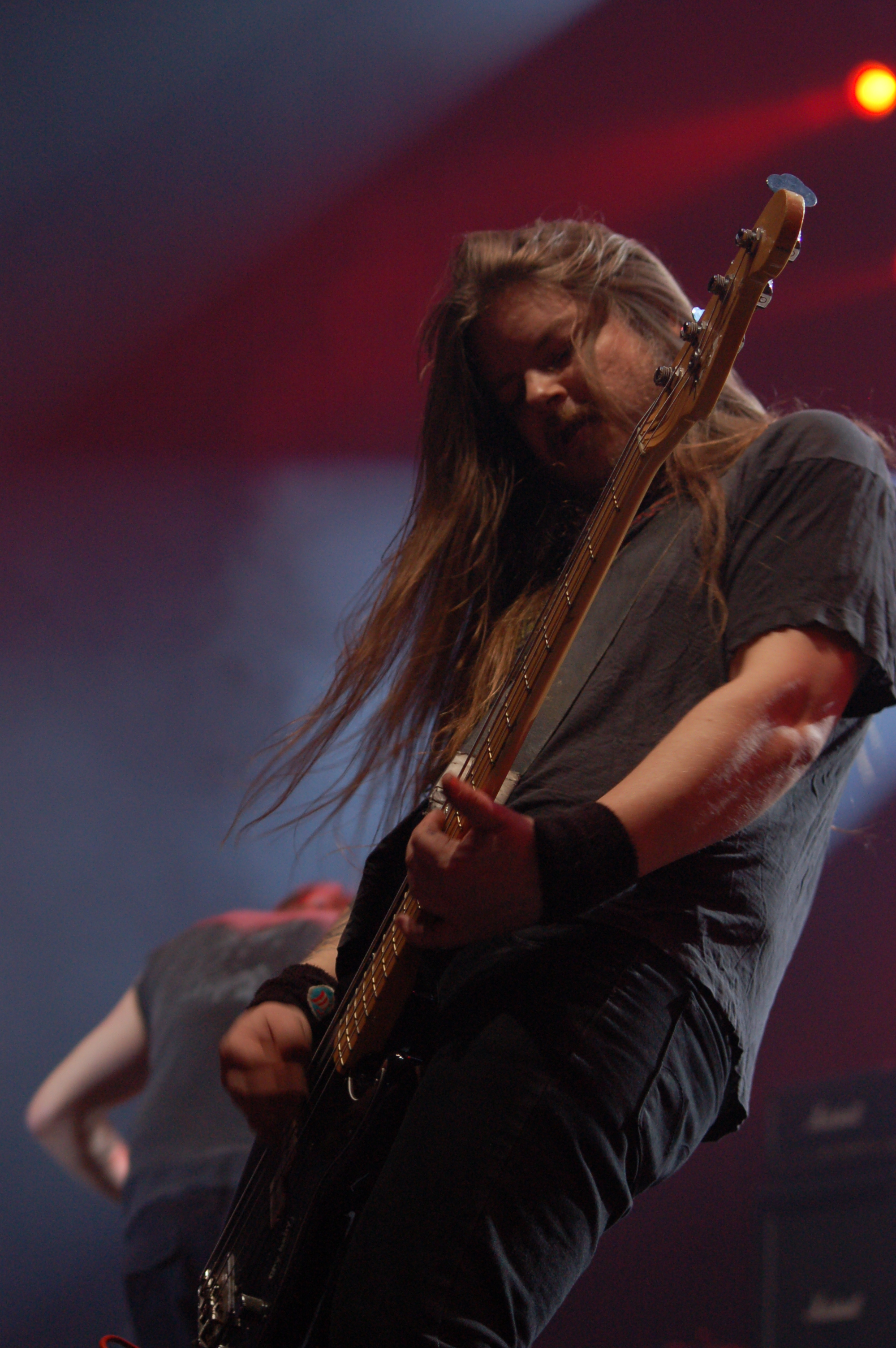 Nico Elgstrand from Entombed during Metalmania 2007 festival